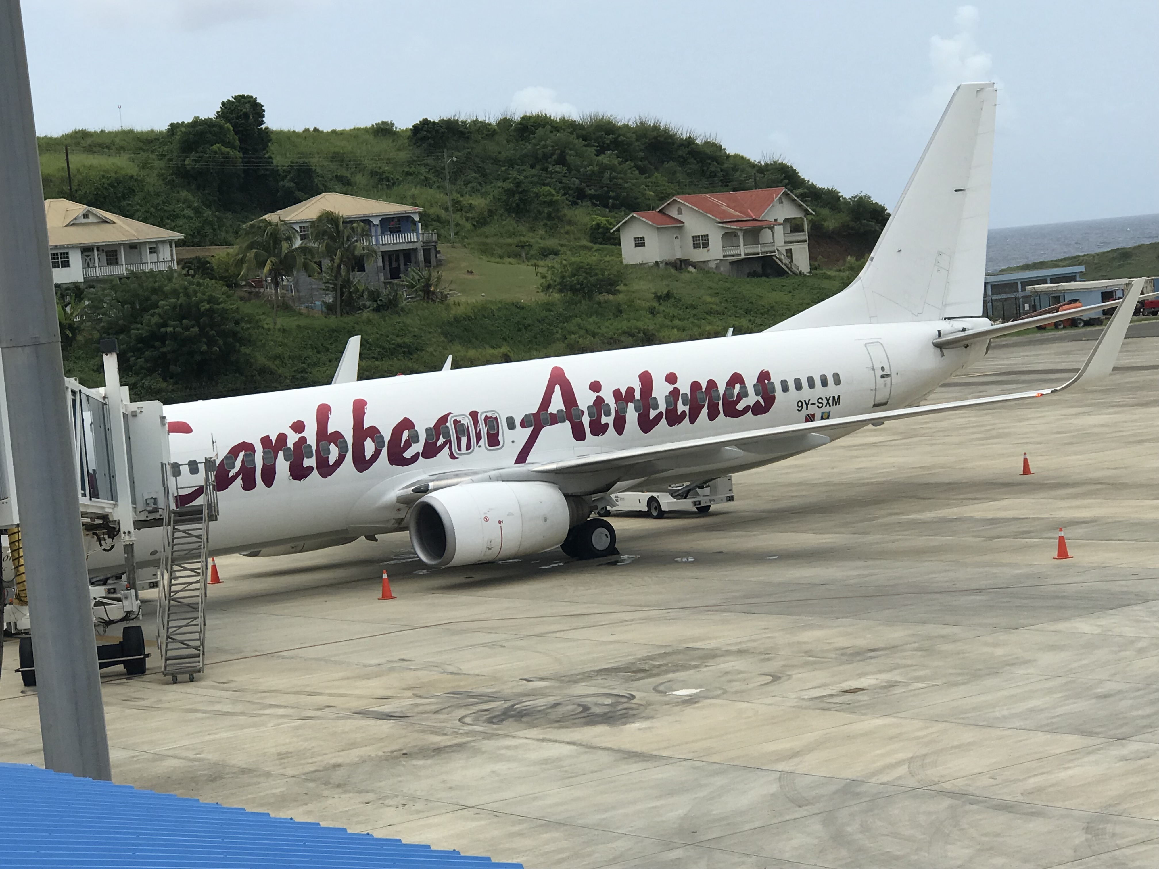 CAL at AIA